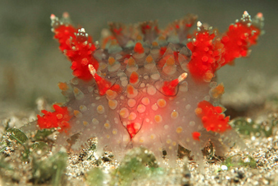 photo taken in Anilao Philippines, 5M depth on a night dive in 2013 at world famous muck dive site Anilao Pier by Jun V Lao